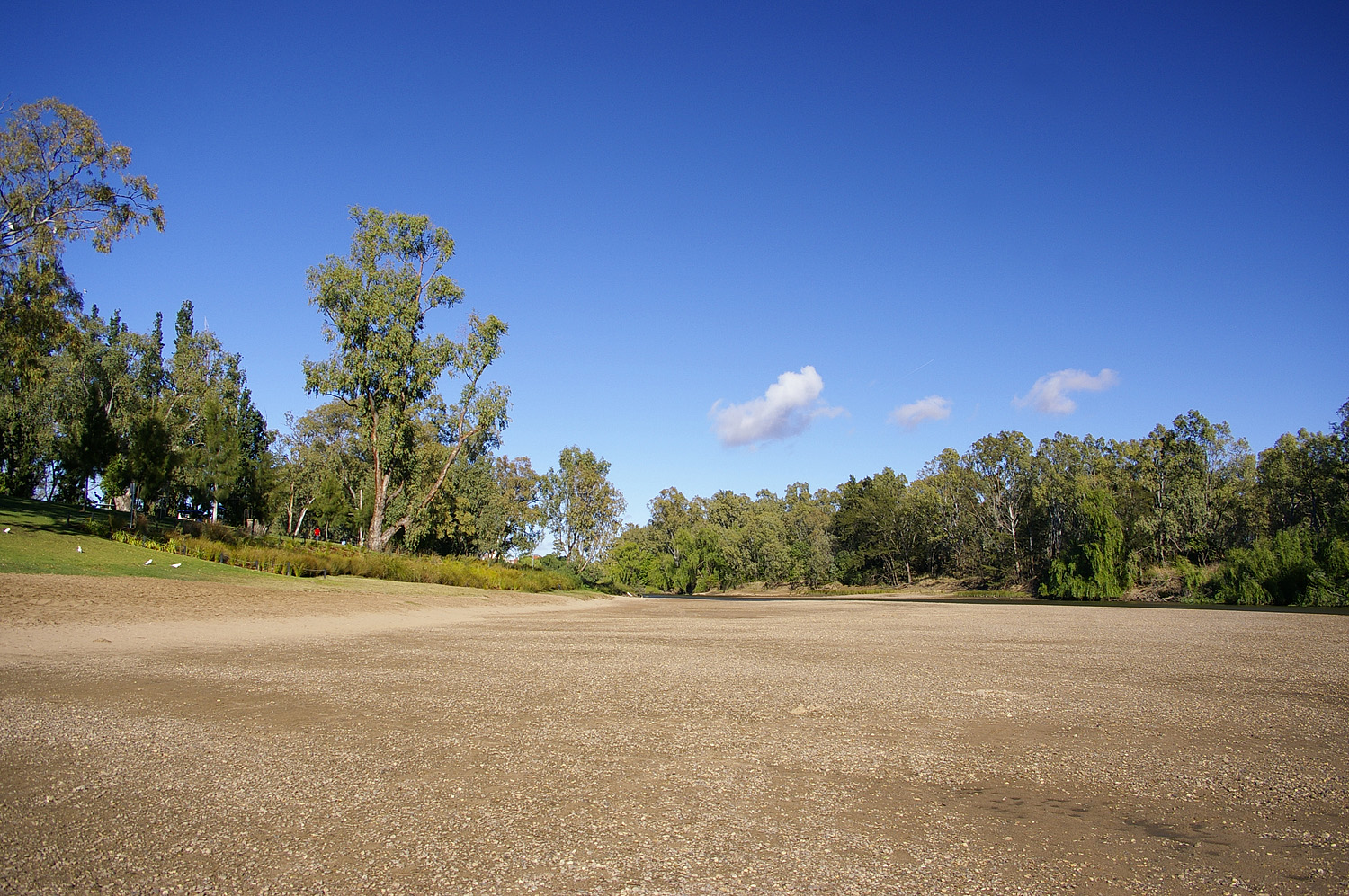 Wagga Beach in Wagga Wagga, New South Wales on the Murrumbidgee River.